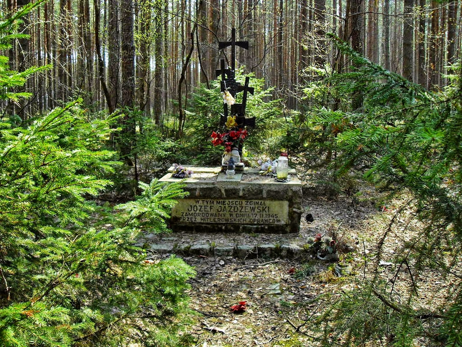 Death place of Józef Jażdżewski - a victim of German-Nazi terror